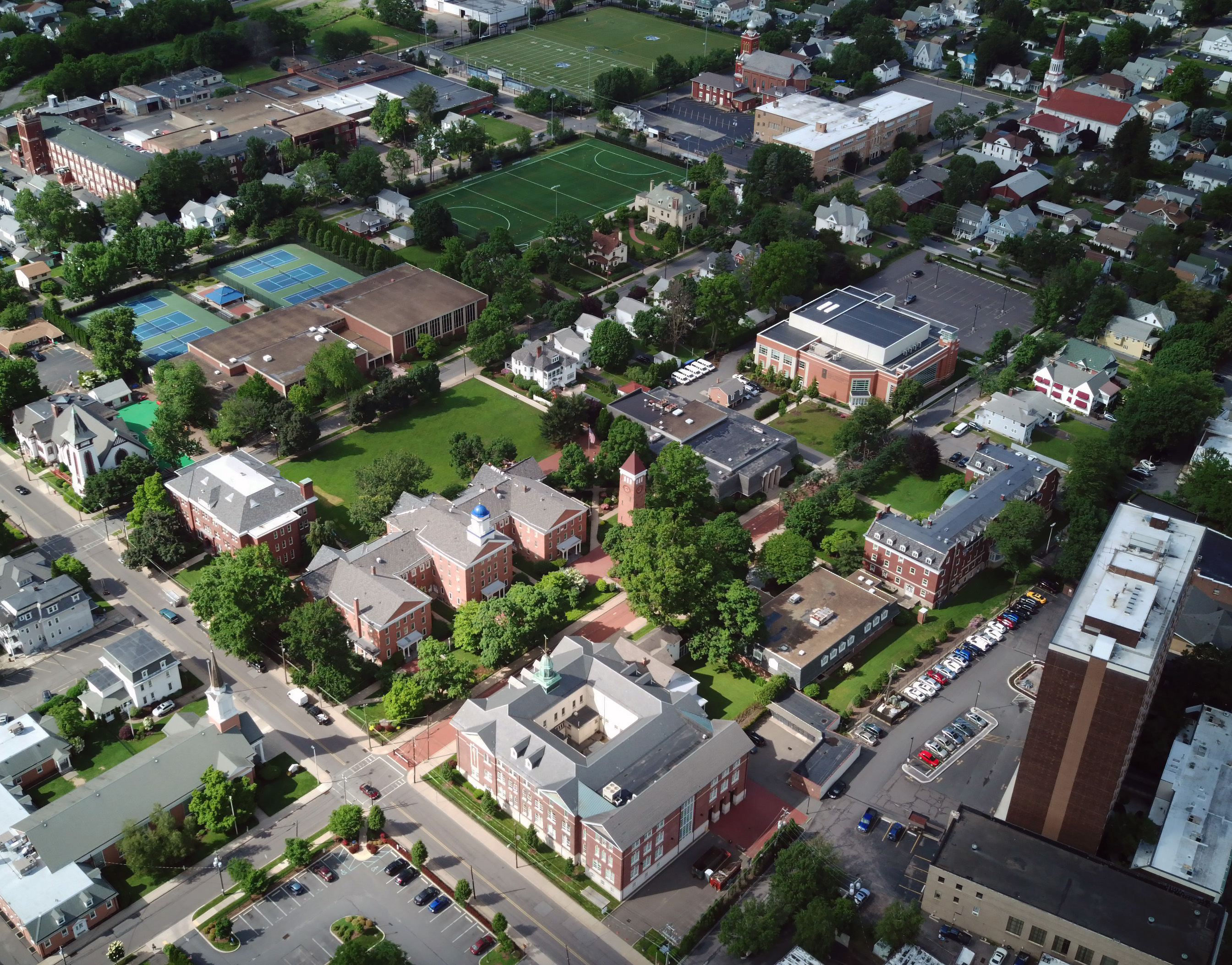 Overhead view of Wyoming Seminary's Campus